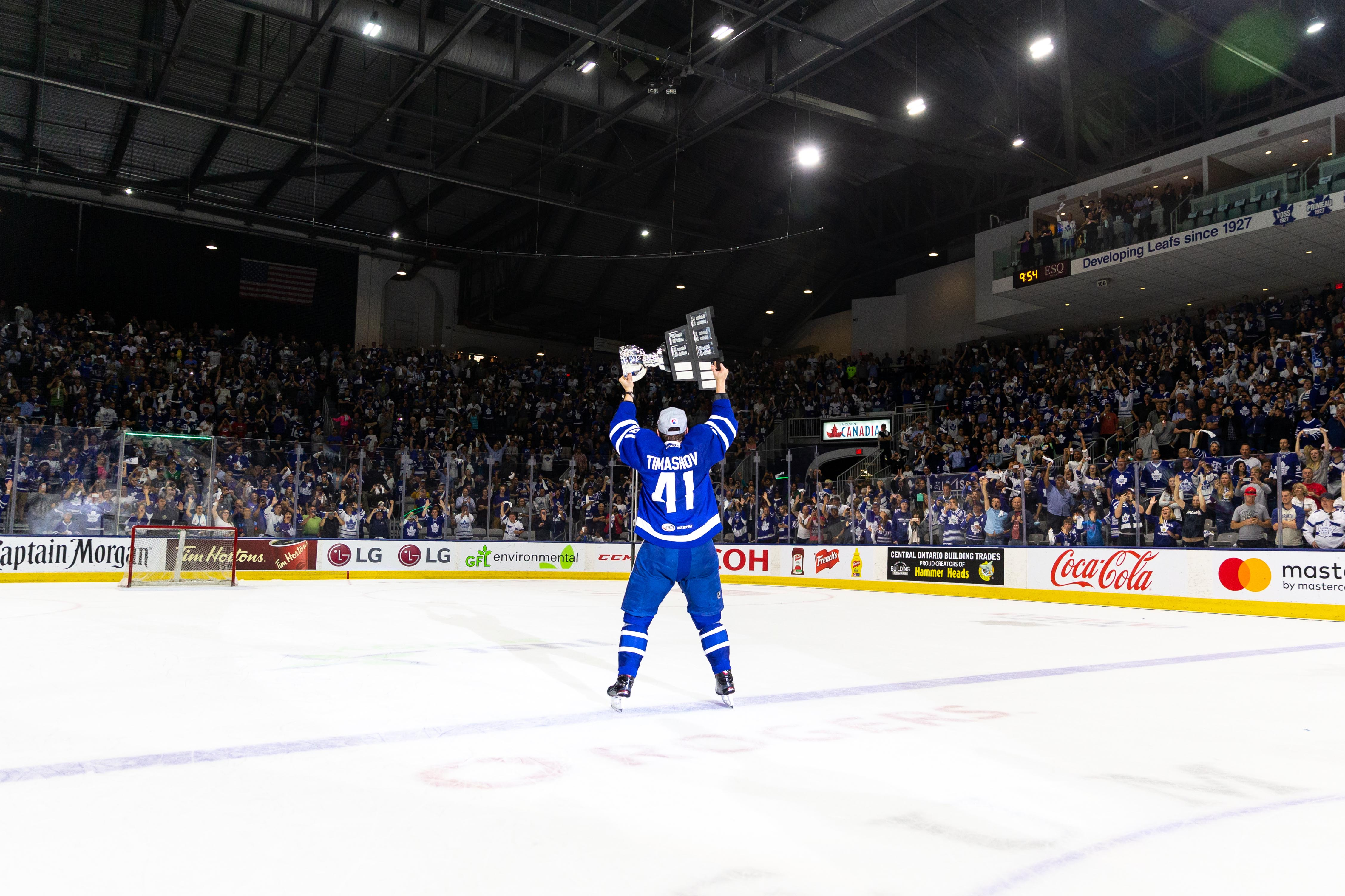 Photo: Thomas Skrlj/AHL